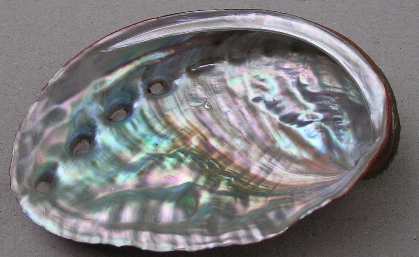 Haliotis kamtschatkana Jonas, 1845; family Haliotidae; Alaska